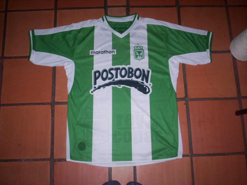 Atlético Nacional 2008 Home.